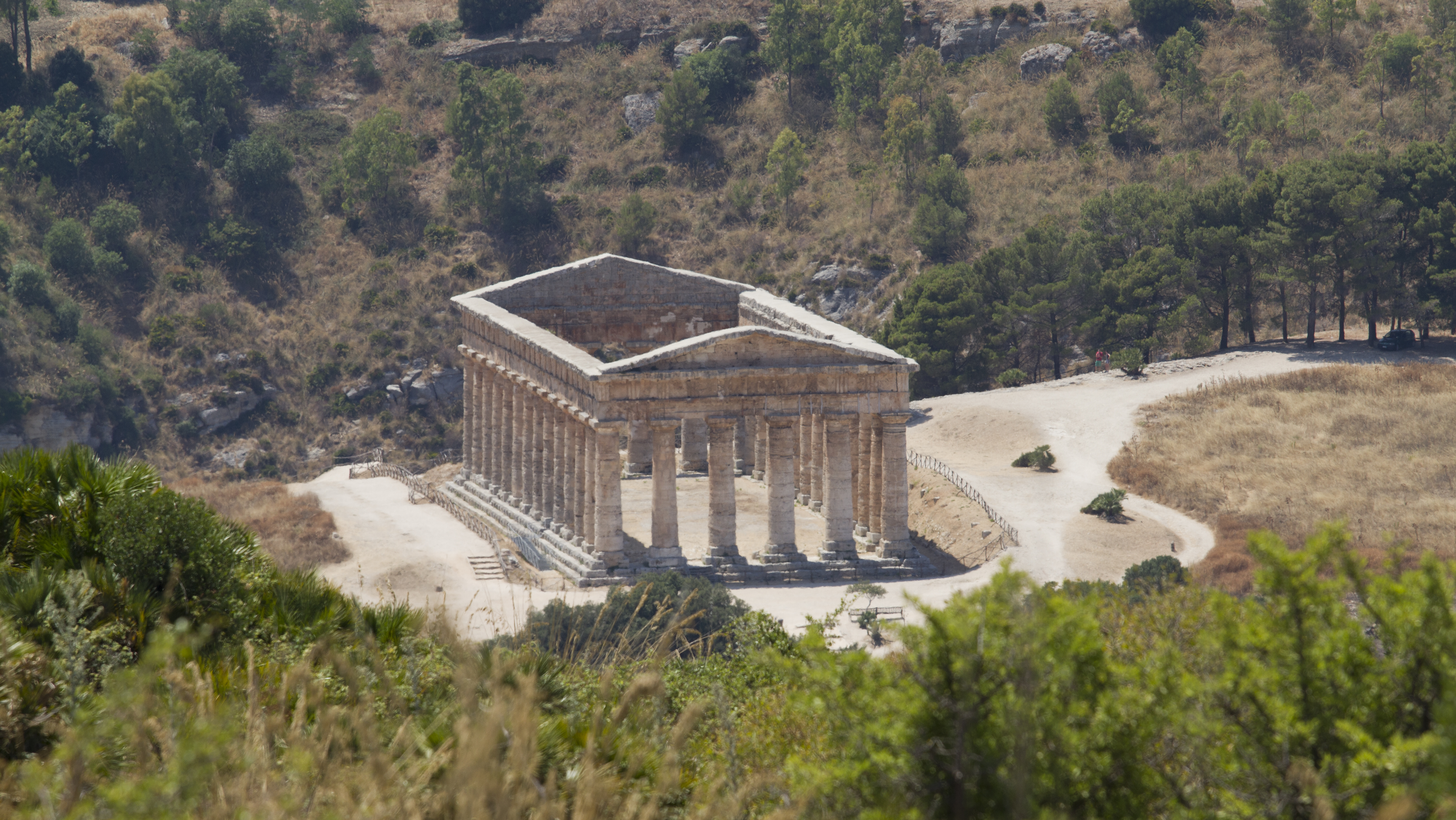 The greek temple of Segesta, Calatafimi, Trapani, Sicily, Italy